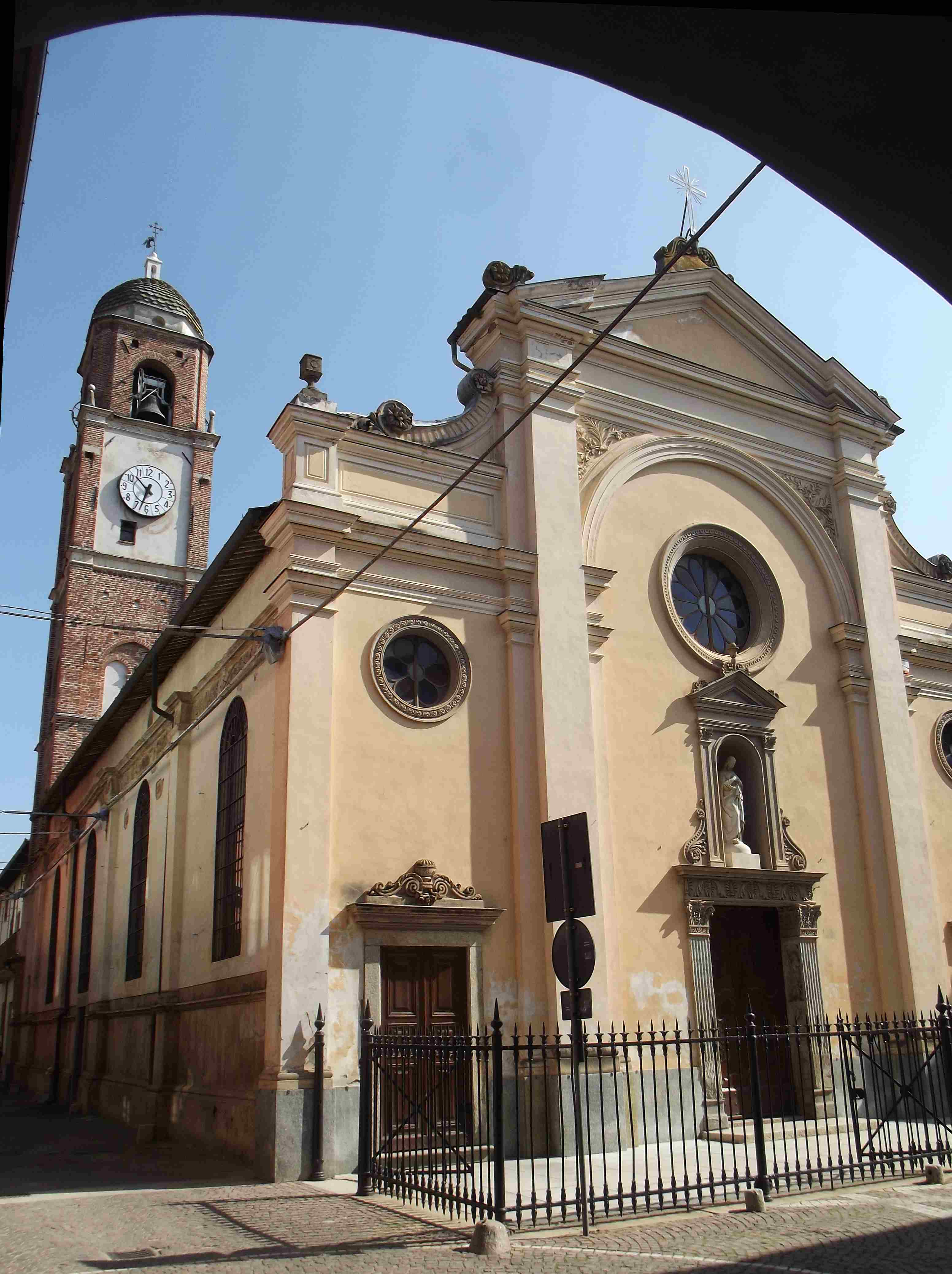 Rivalta Bormida (AL, Italy): parish church